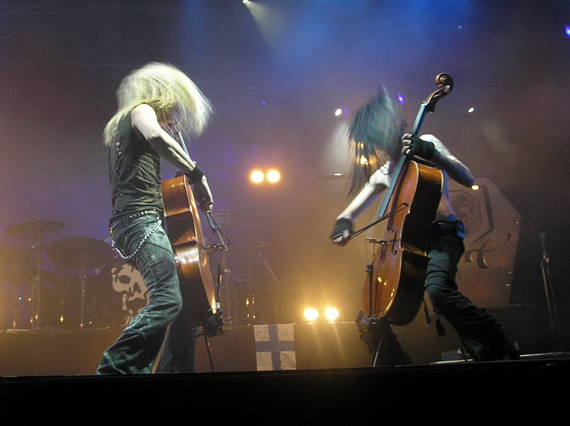 Apocalyptica at Southside Festival 2006, Germany.jpg